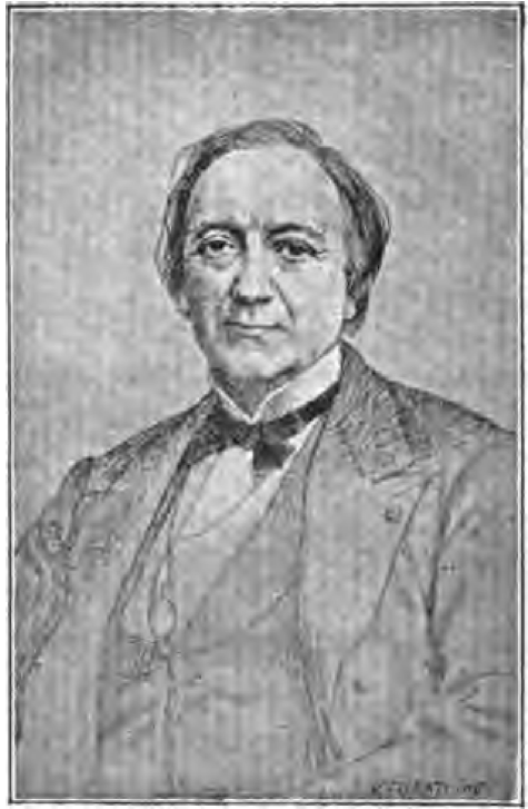 picture from "Rivista italiana di numismatica 1888.djvu p. 367 (../406) showing a portrait of Alfred Armand